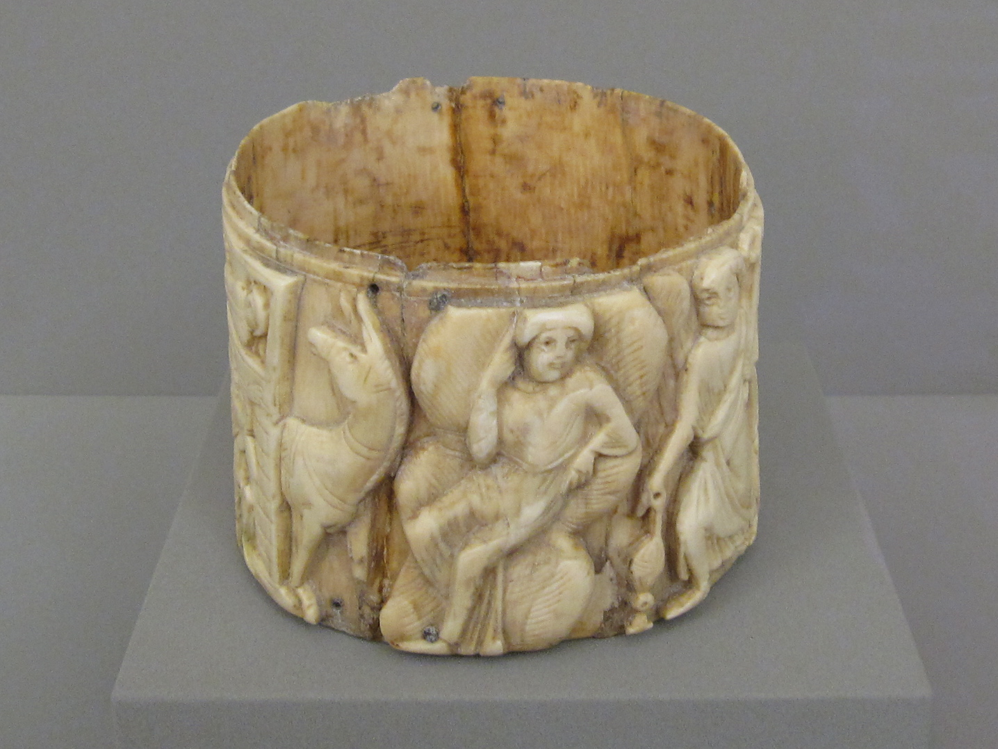 Box (pyxis) with a scene from the life of the Virgin.